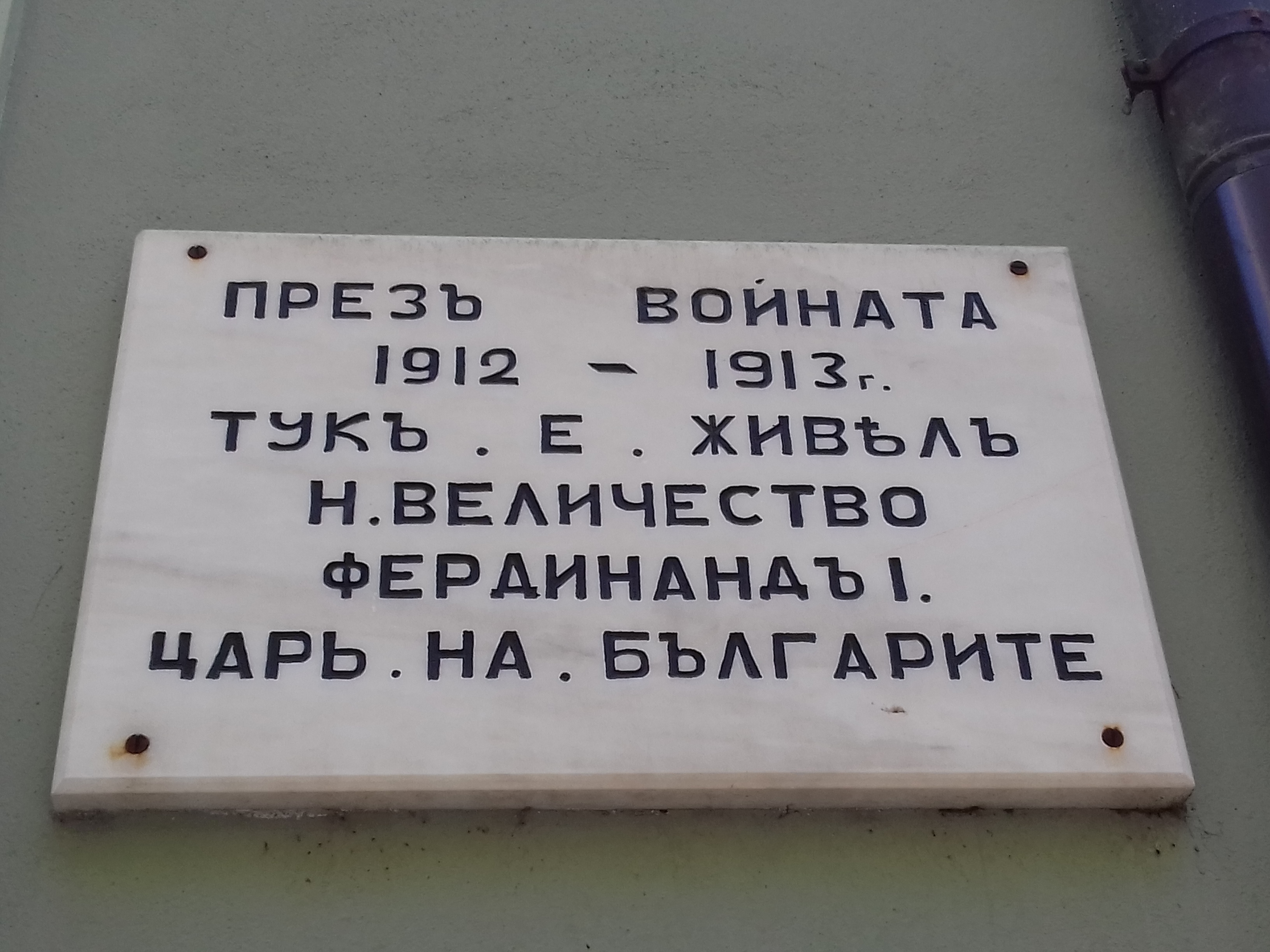 Buhcheva house in Stara Zagora, Bulgaria.